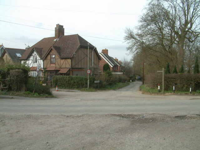 Manor Lane, Lower Kingswood Manor Lane, Lower Kingswood at the junction with Margery Lane and Mint Lane.